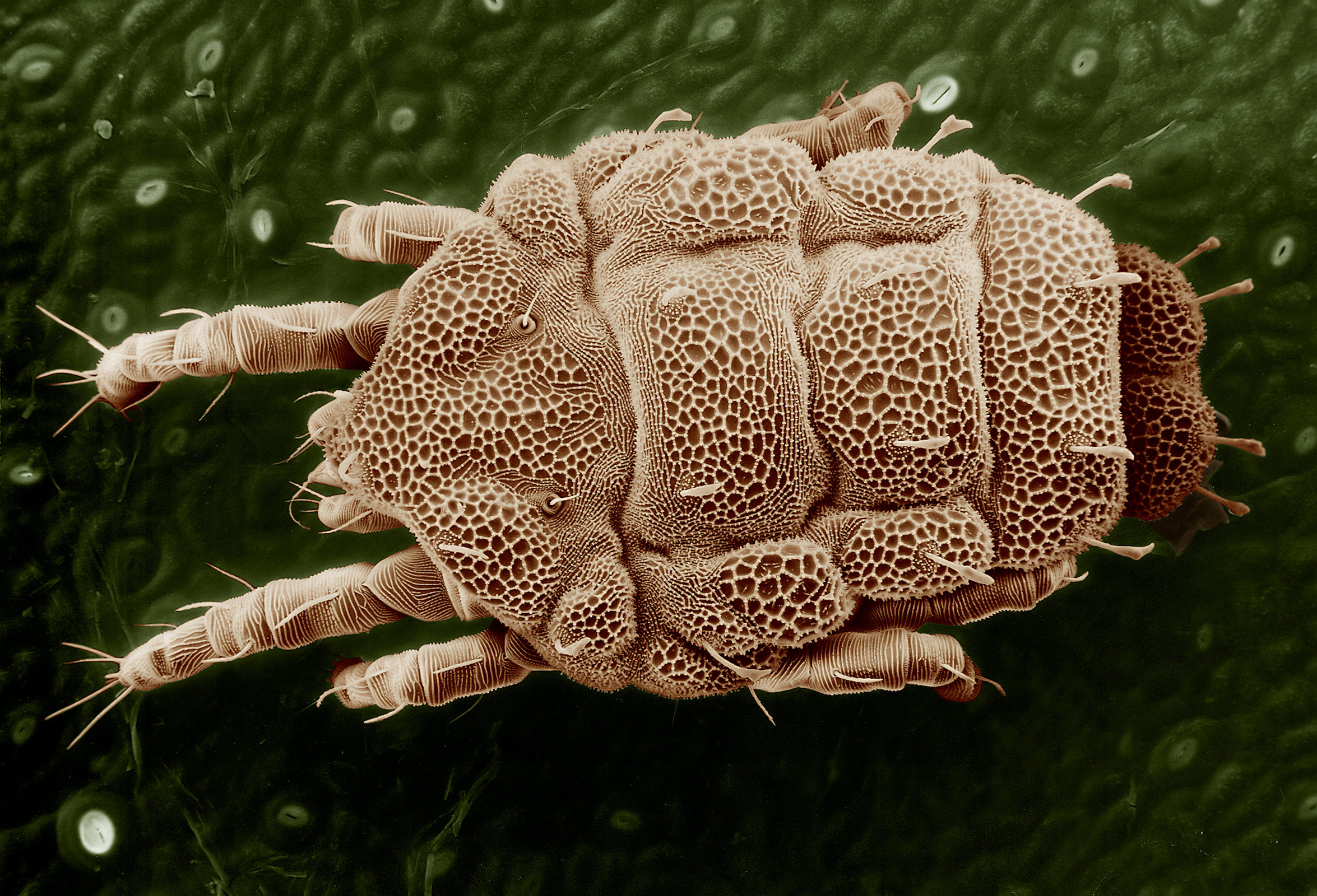 This is an overhead view of the Lorryia formosa mite. Magnified about 200×. Scanning electron microscopy allows mites to be viewed from different angles. Photo by Eric Erbe; digital colorization by Chris Pooley.